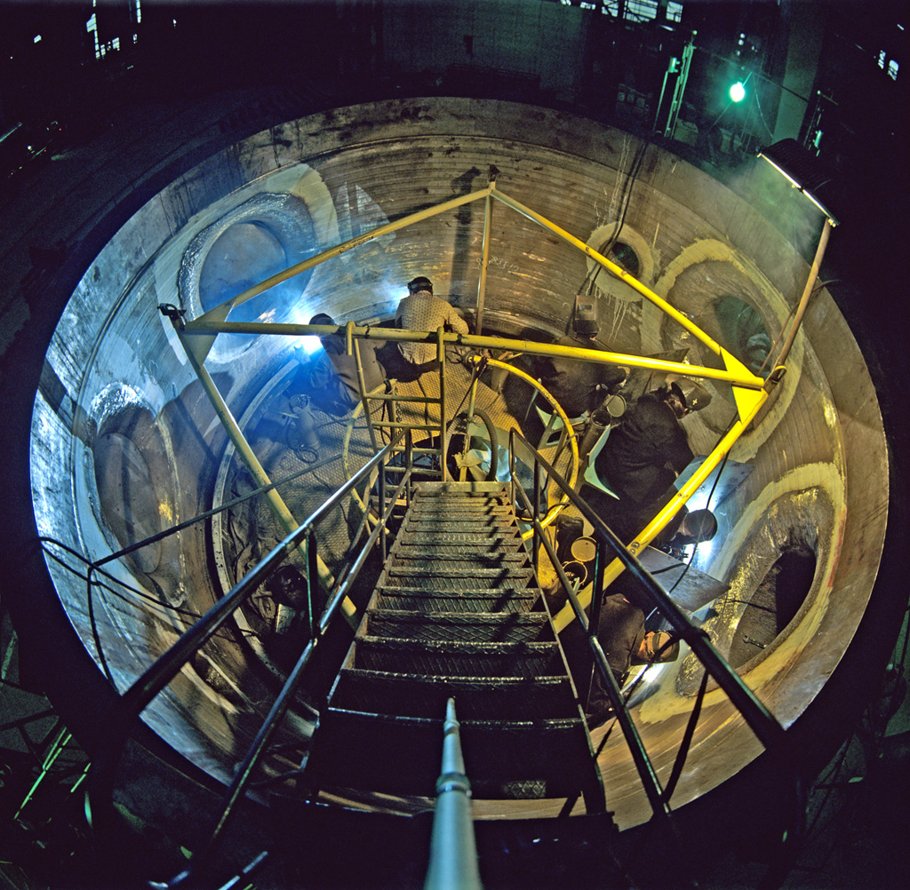 “Assembly of reactor frame”. Atommash Volga-Don Association of Enterprises for Nuclear Power Engineering and Industry. Assembly of a reactor frame.